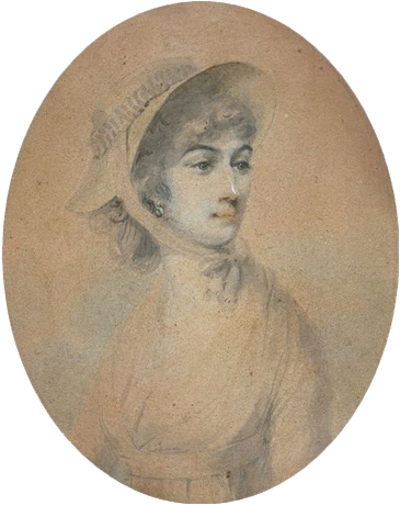 Portrait of Lady Frances "Fanny" Nelson (1761-1831)